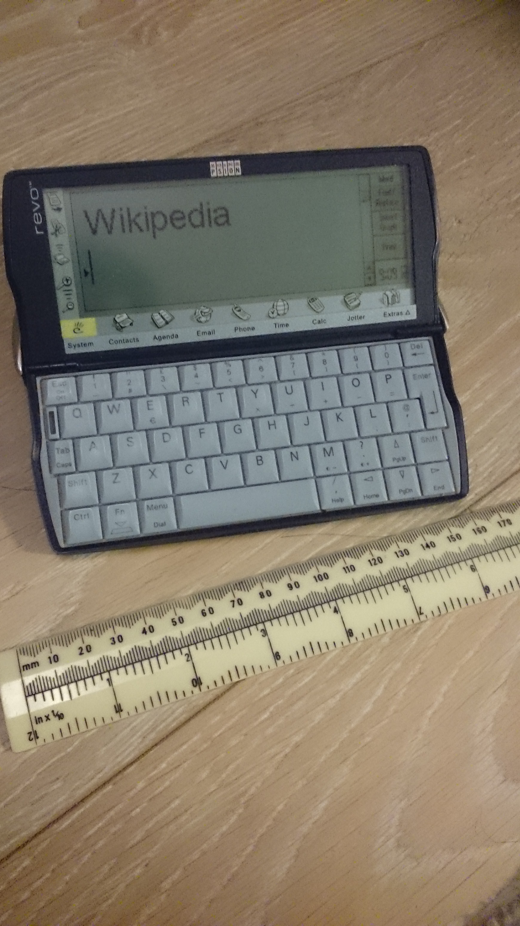 Psion Revo PDA made in 1999, showing the Word app in a large font, with a ruler for scale. Background is laminate flooring.